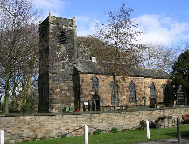 St James' Church, Tong Built as the estate church for the Tempest family of Tong Hall. The Church had box pews, including the squire's pew with fireplace. There is also a Jacobean Three decker pulpit. During archaeological excavations in the 1970s evidence of Saxon work was found.